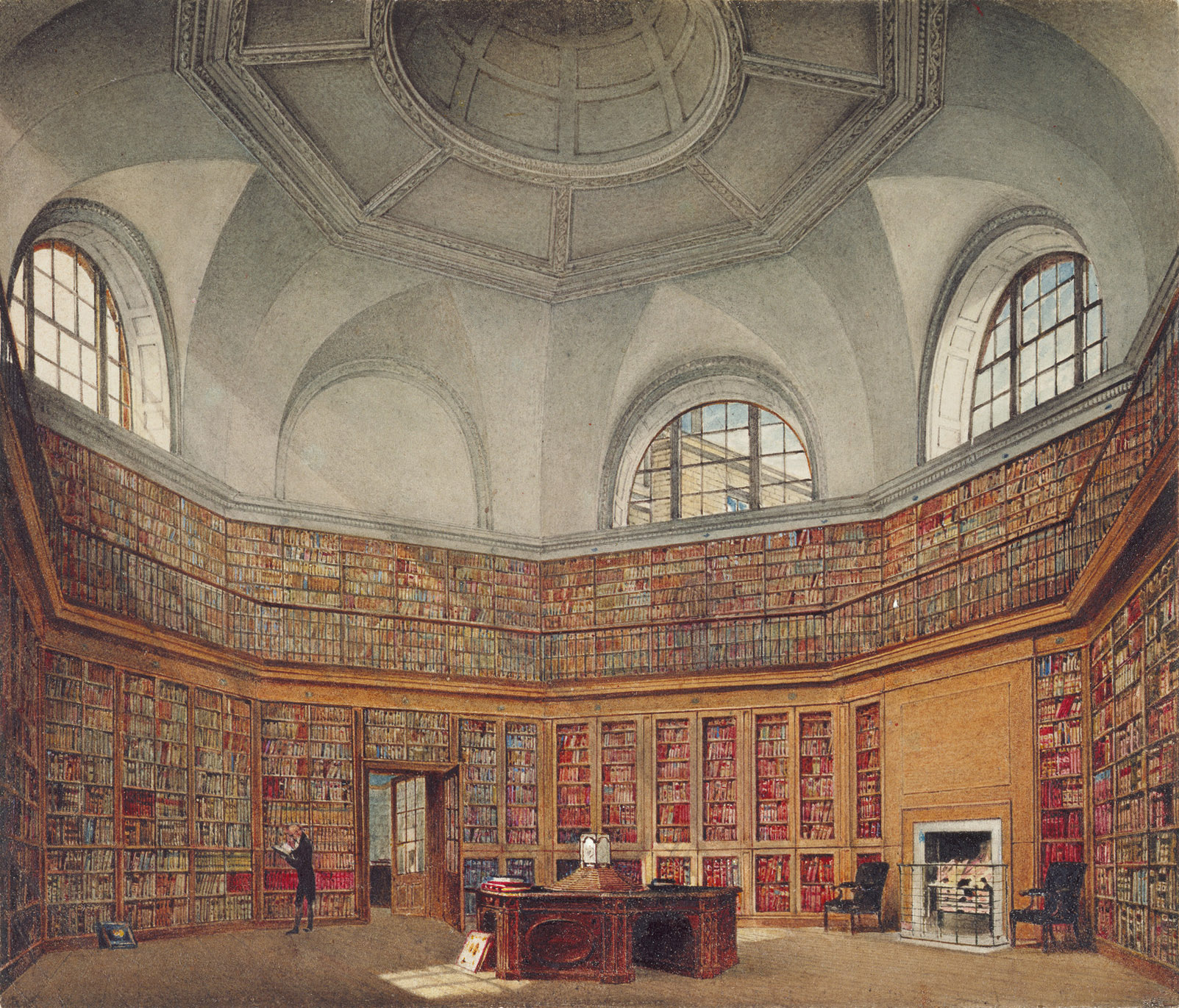 The Octagon Library at the Queen's or Buckingham House, original home to George III's collection of books